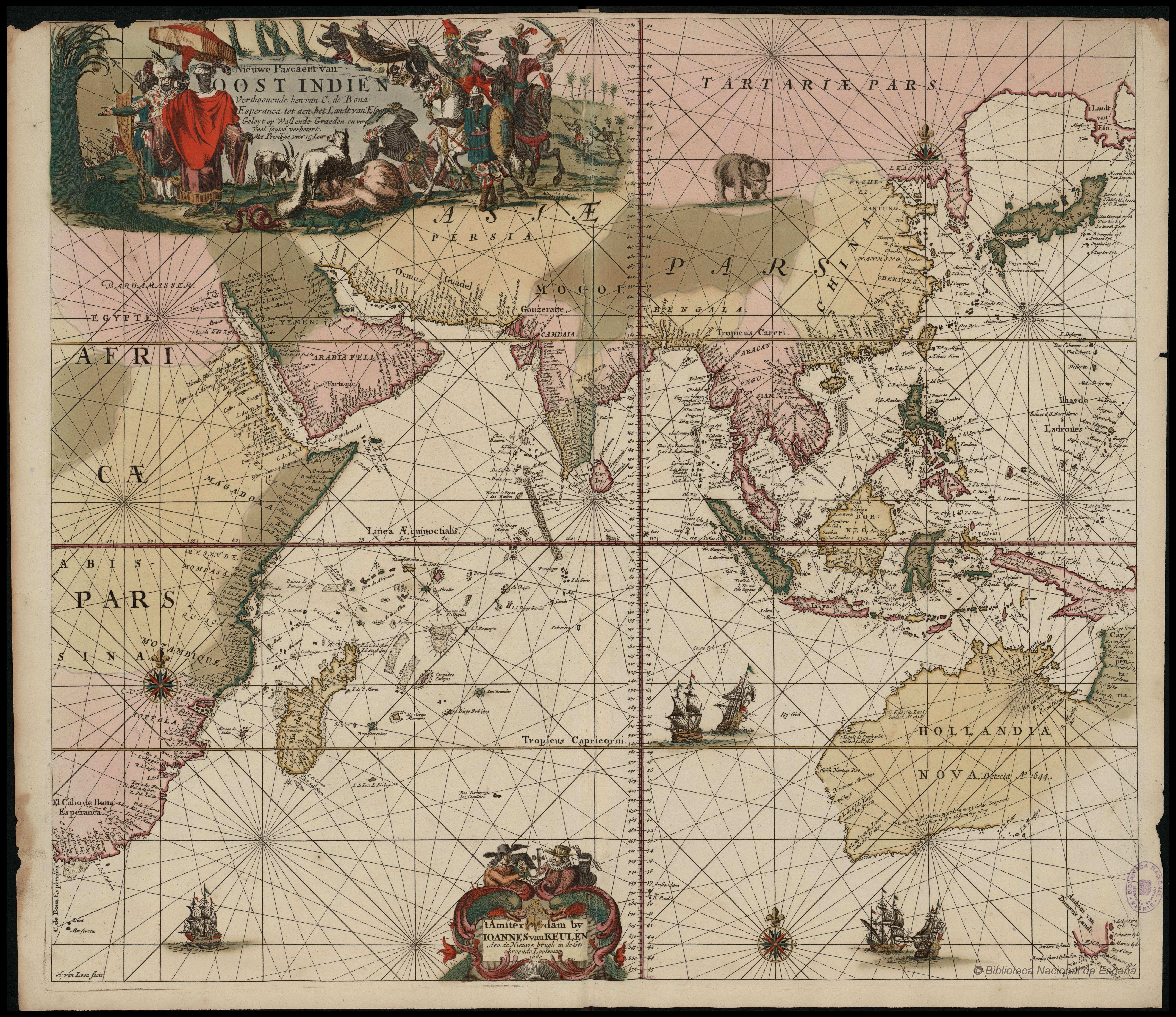 Antique map of Far East, Australia by van Keulen